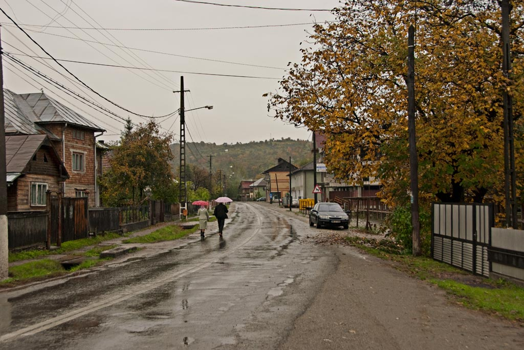 Rona de Sus - Nationalstreet 18 through the town